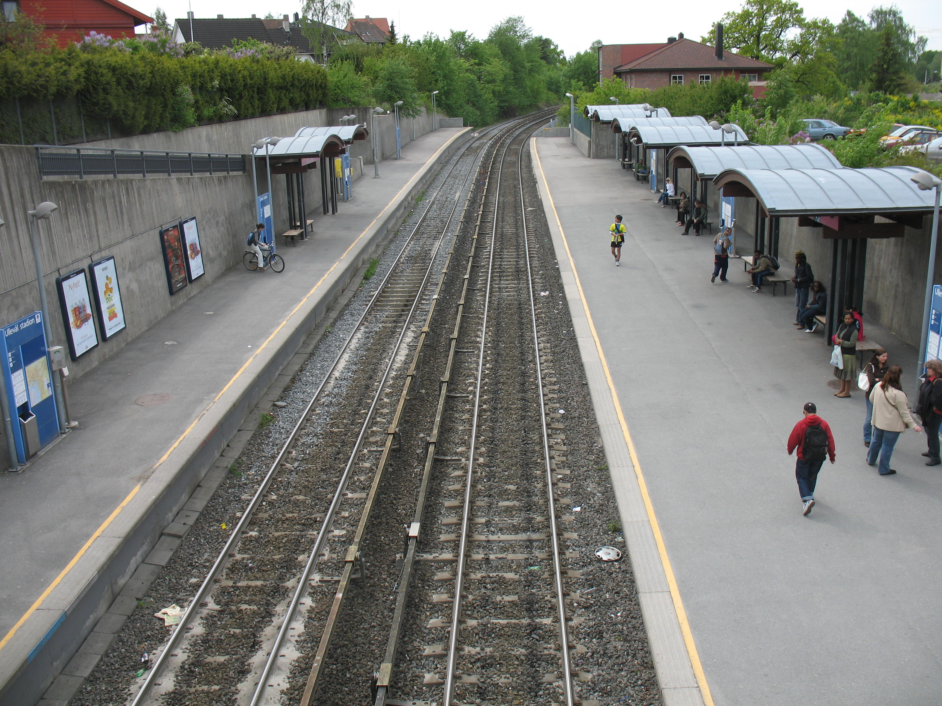 Ullevål stadion is a station on the Oslo T-bane.